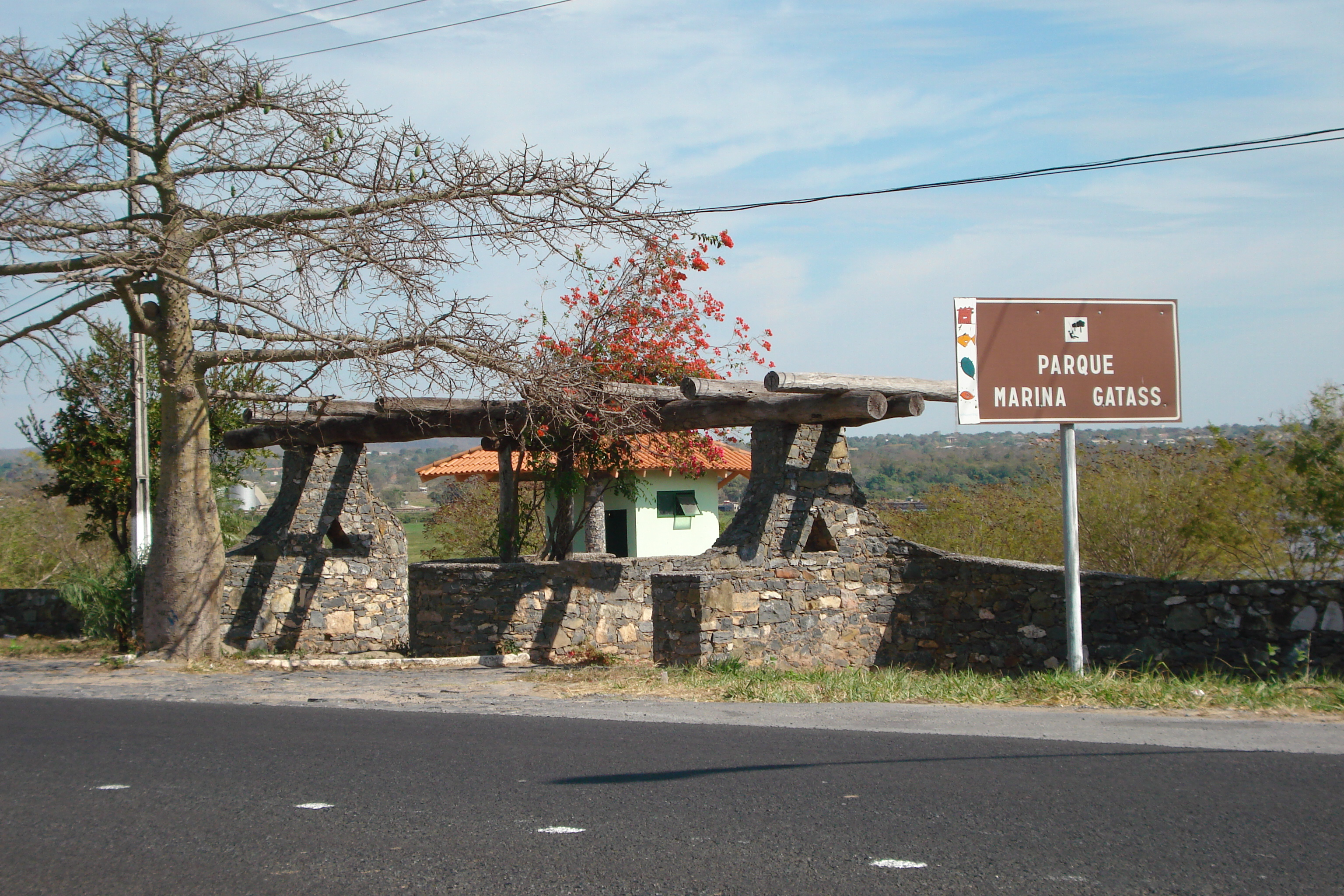 Marina Gatass Park in Corumbá, Brazil